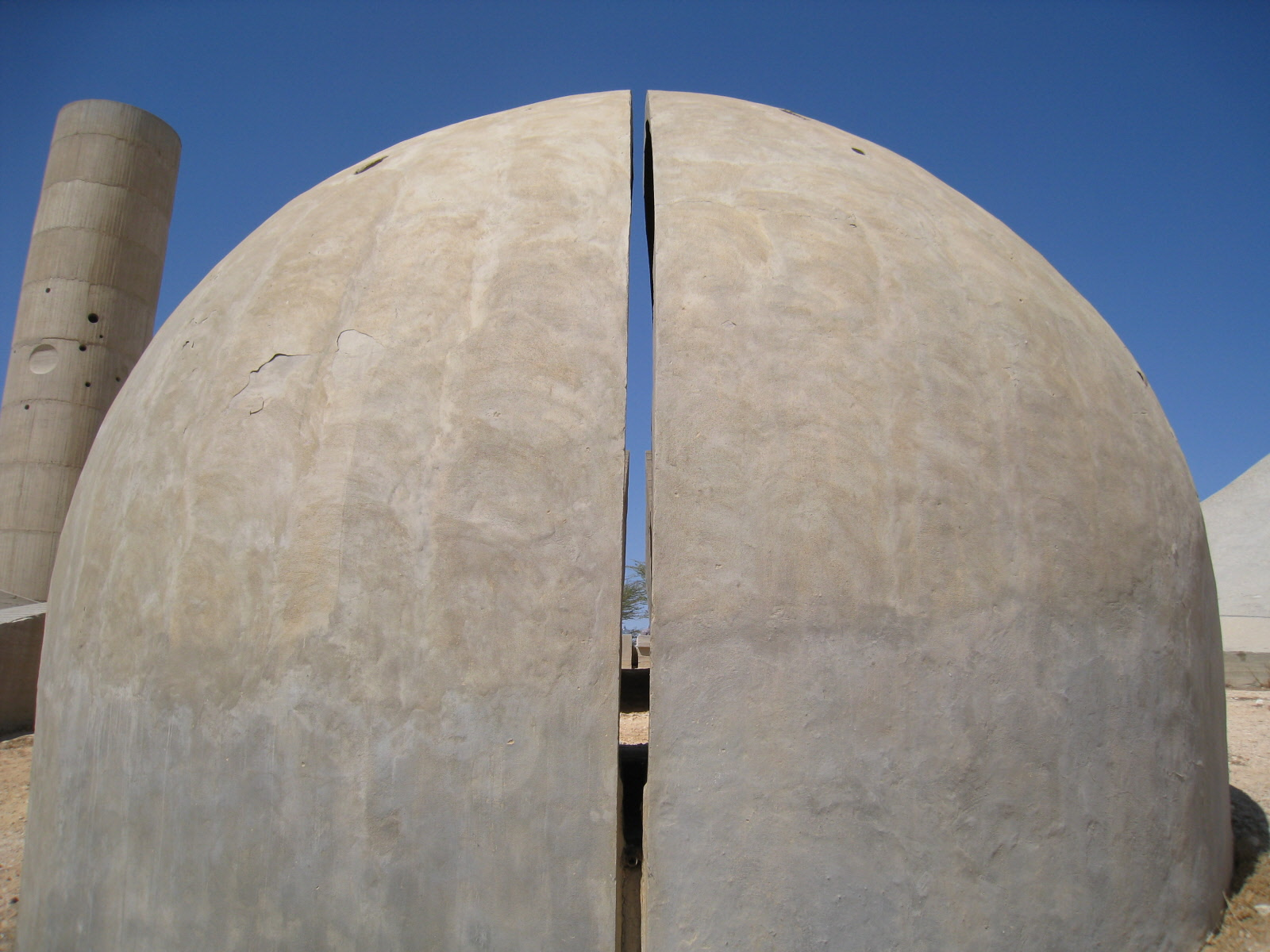 Monument to the Negev Brigade in the 1948 War of Independence, outside Beersheba, Israel.